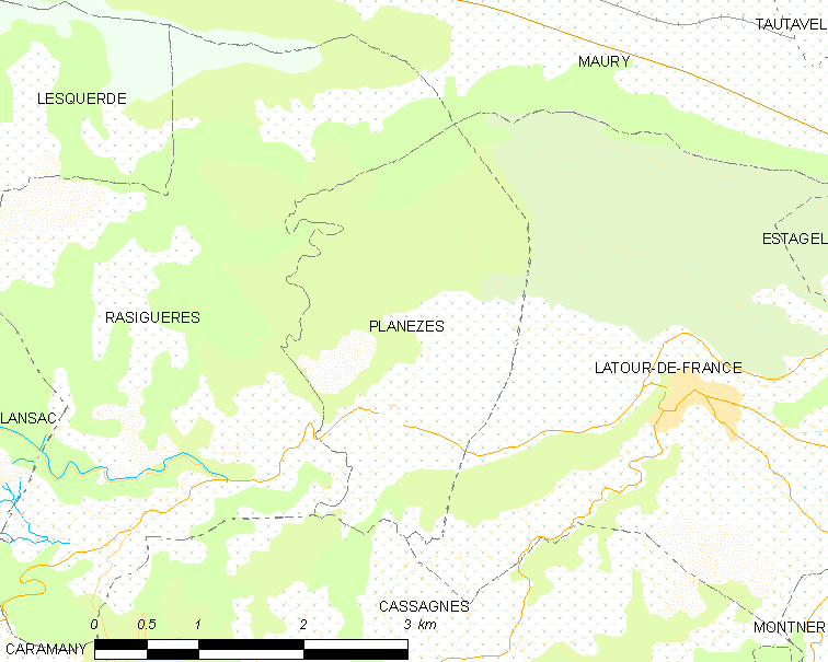 Map of French municipality